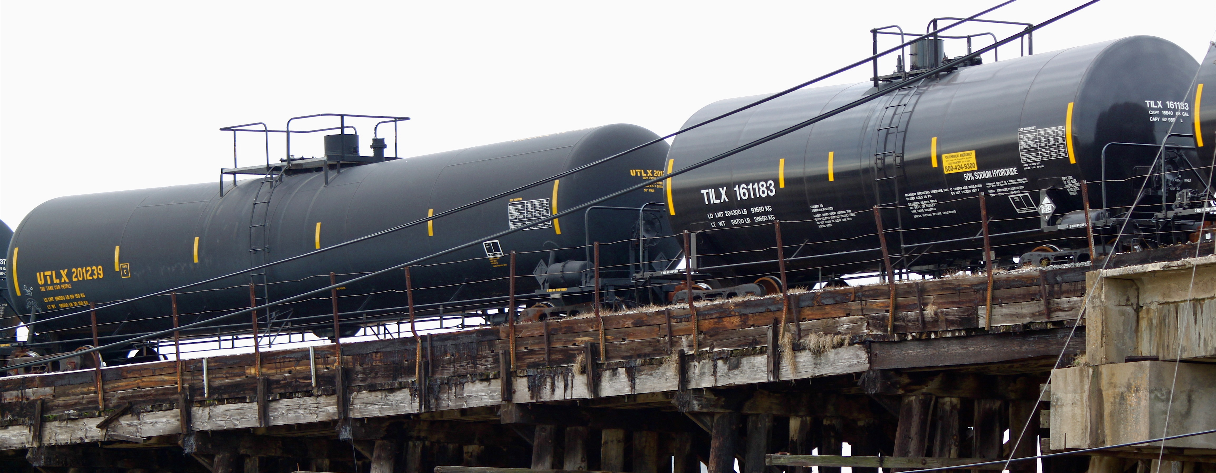 Union Pacific's Englewood Yard, Houston, Texas. UTLX is the code for Union Tank Car; TILX is the code for Dallas-based Trinity Industries railcar leasing.